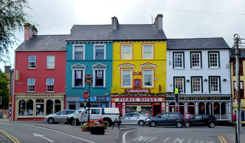 Cheerful primary colours on the High Street.